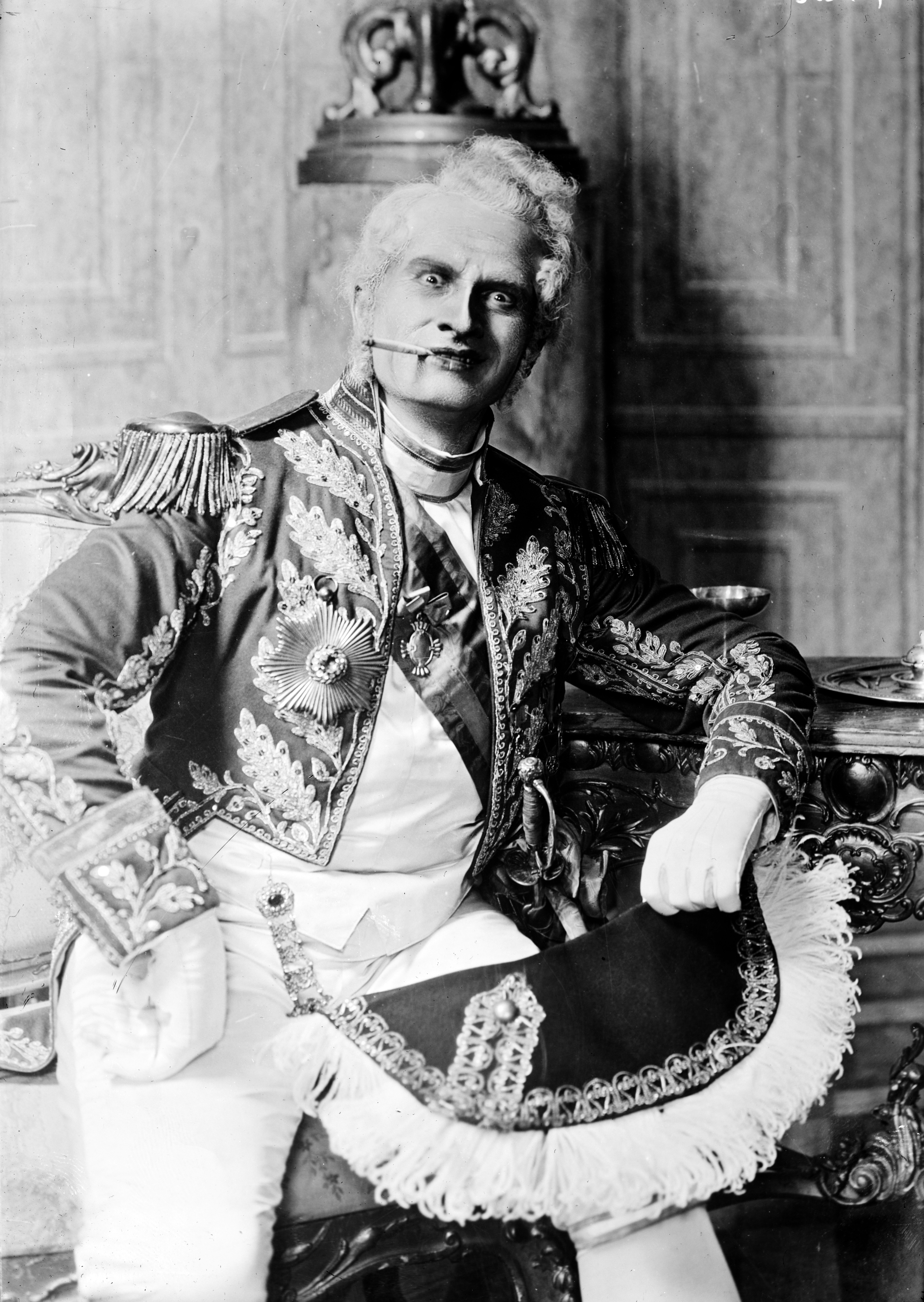 Polish opera singer Adamo Didur (1874-1946) in Tchaikovsky's Eugene Onegin.